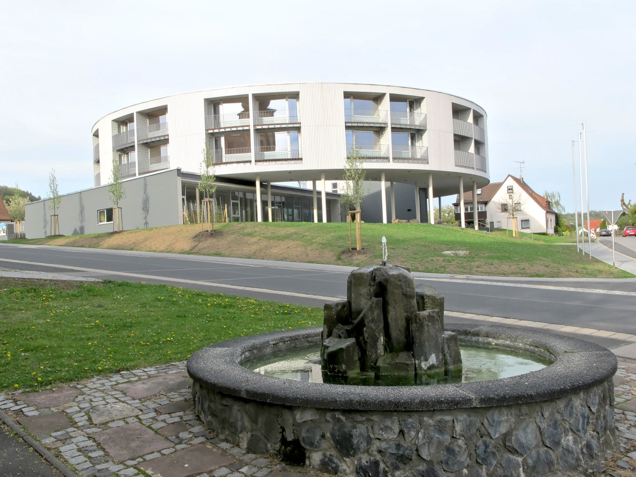 Municipality of Oberelsbach, educational center "green classroom"